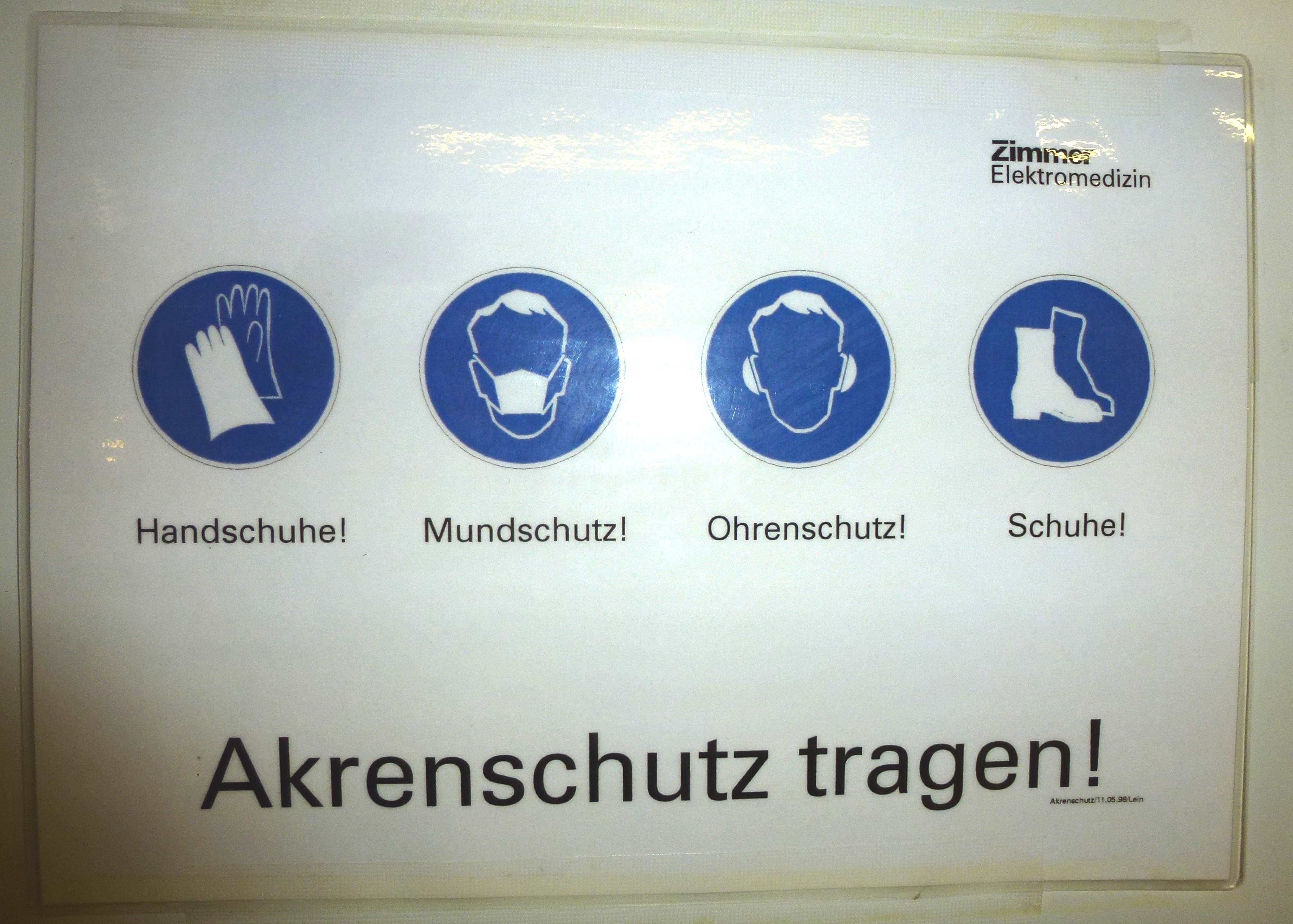 Akren-Protection Sign